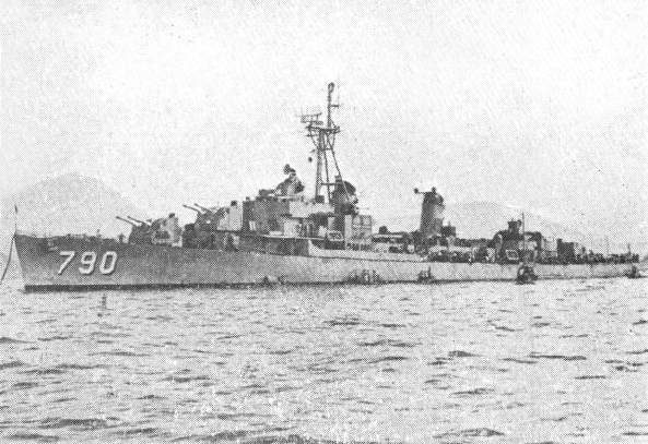 The U.S. Navy destroyer USS Shelton (DD-790) at Sasebo, Japan, in 1952.